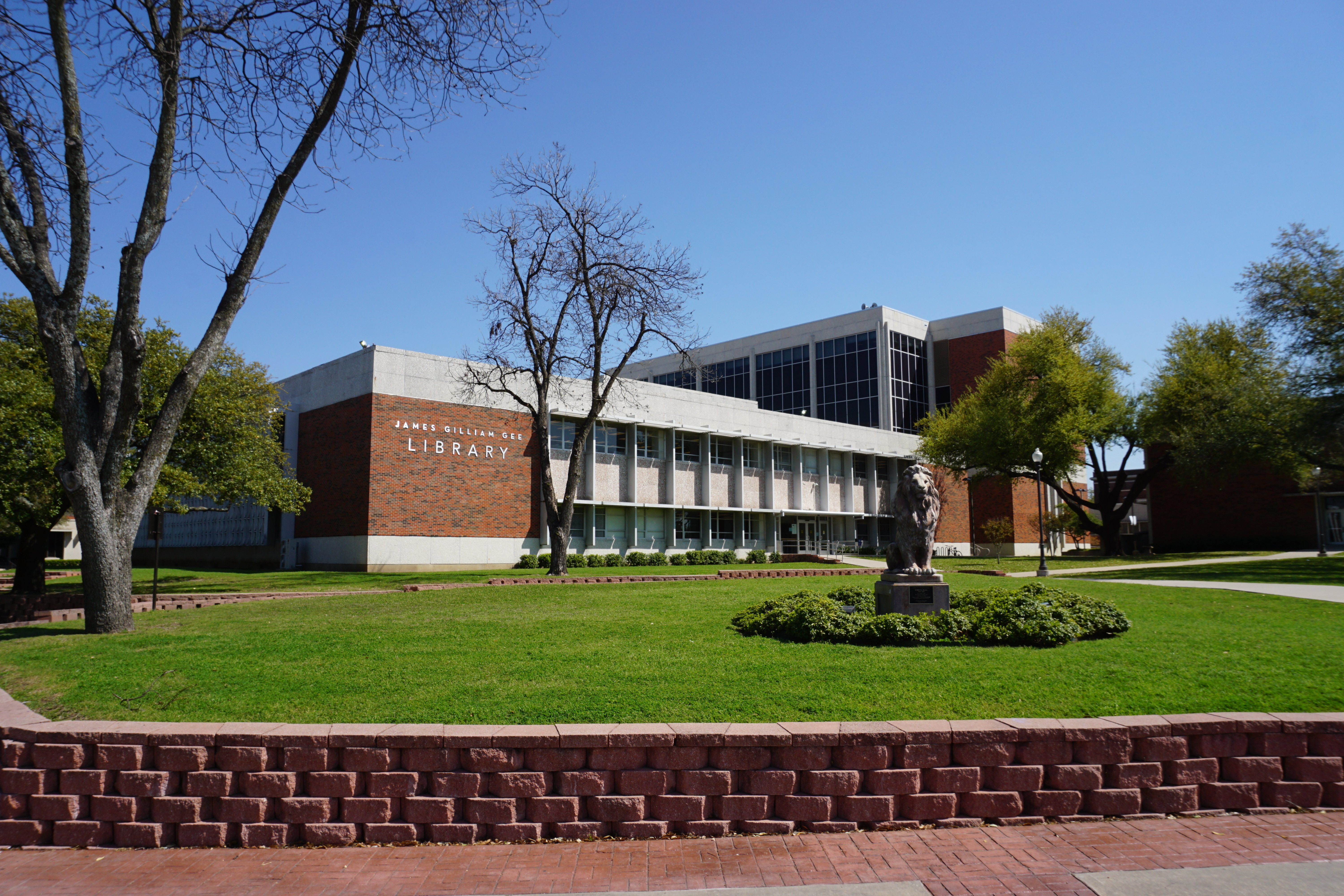 The James G. Gee Library on the campus of Texas A&M University–Commerce in Commerce, Texas (United States).